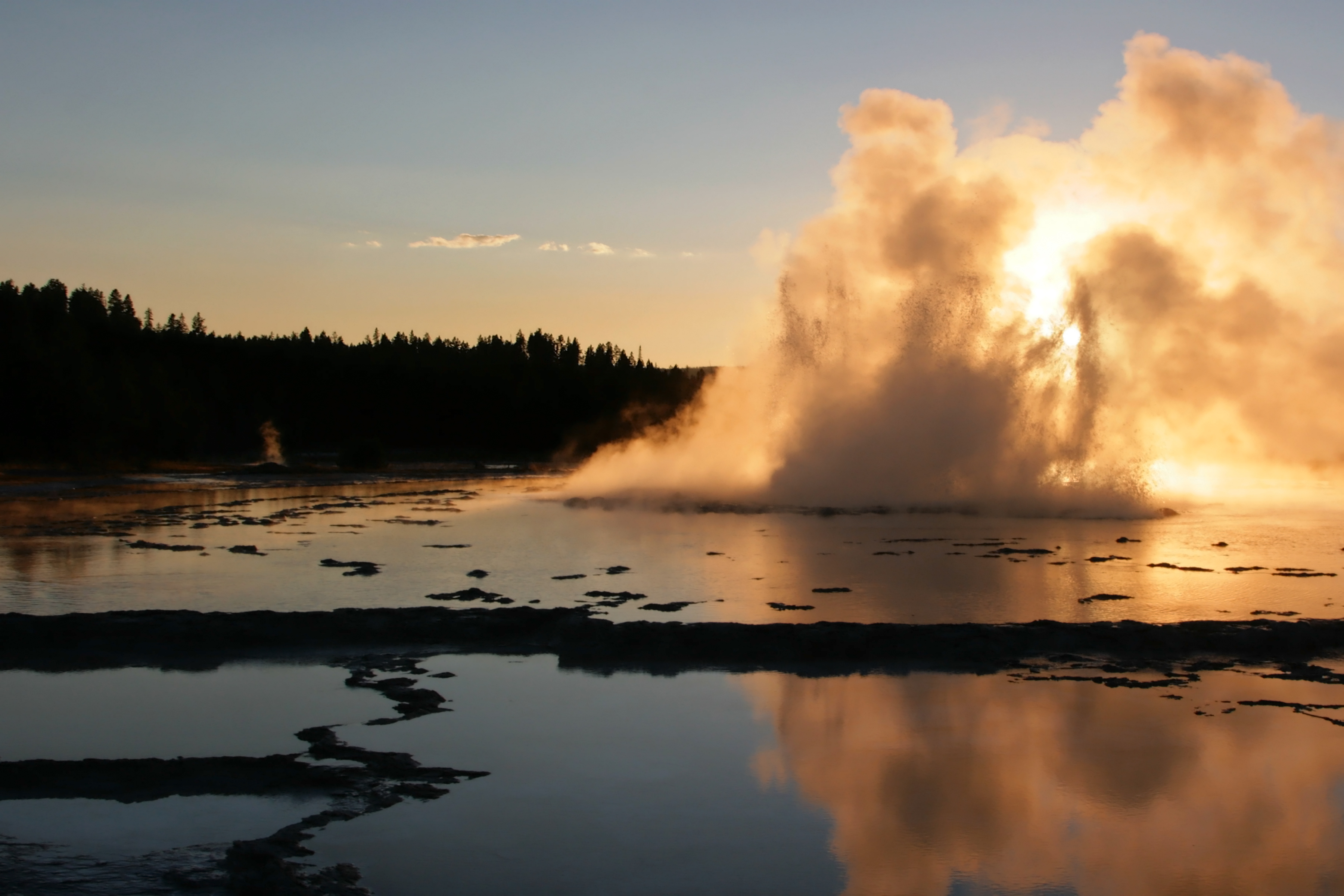 Great Fountain Geyser is erupting at sunset. Yellowstone National Park, Wyoming, United States.